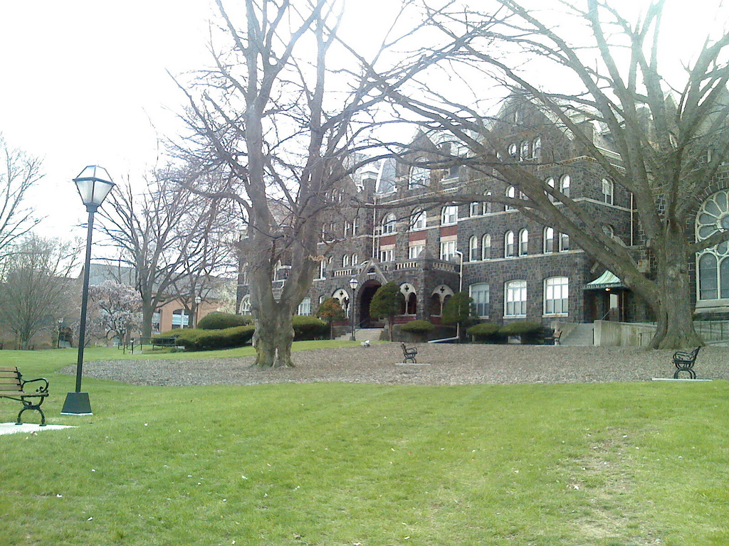 Moravian College, at Bethlehem, Pennsylvania, United States.